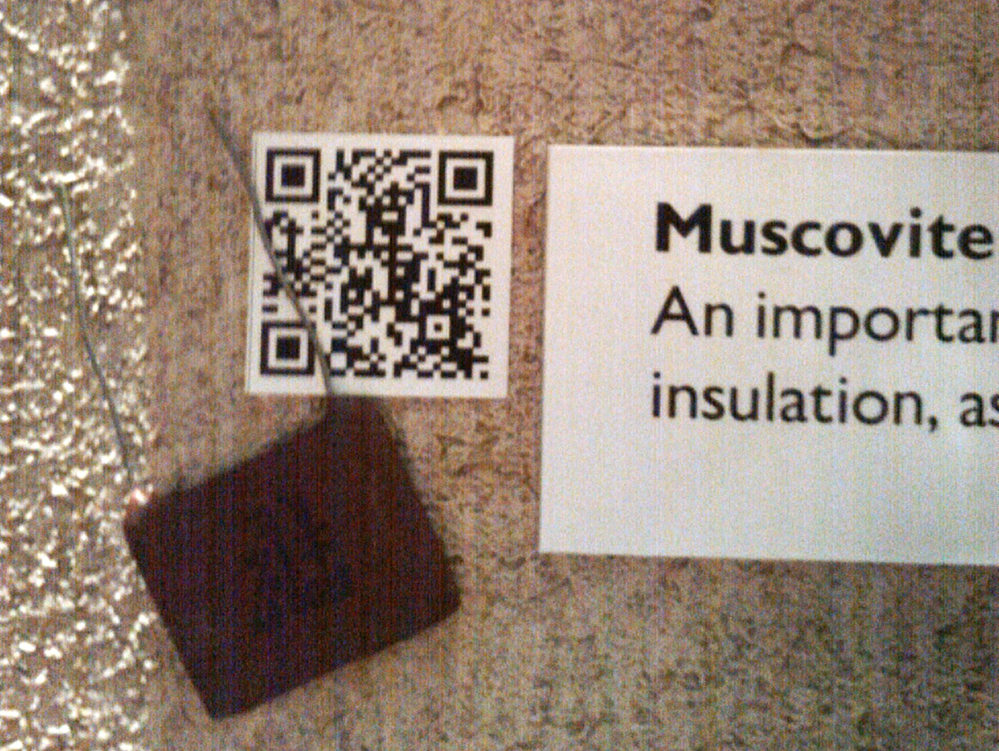 Muscovite Geology exhibit with multilingual QR code blocked by semiconductoir - still reads fine. Courtesy of QRWP & QRpedia at Derby Museum ready for GlamDerby event on April 9 2011